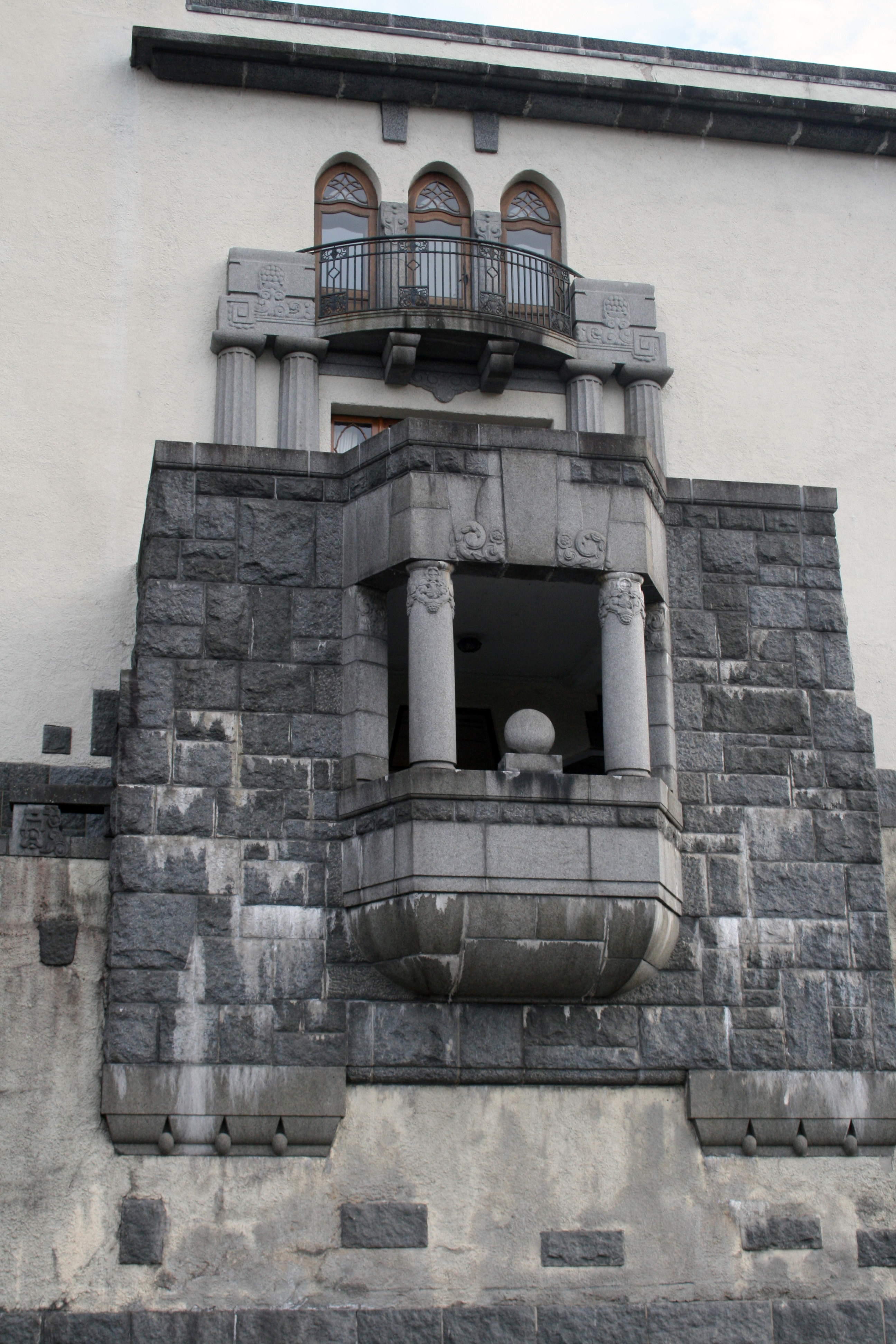 Kristinelundveien 22 in Oslo, Norway; detail towards Halvdan Svartes gate. Built 1916; architect E. Engelstad.